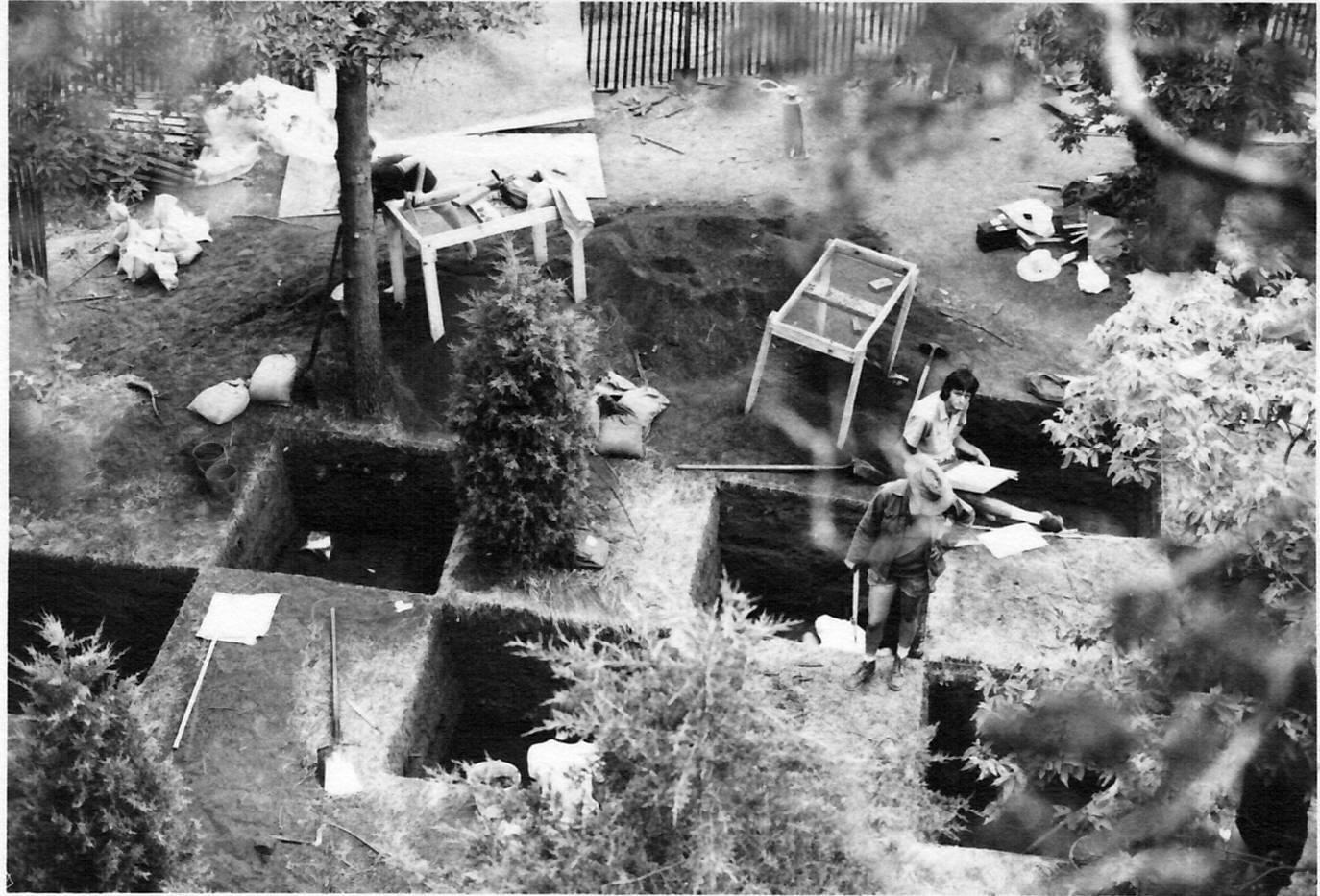 View of archeological dig on the top of Starved Rock. Starved Rock State Park, Illinois USA